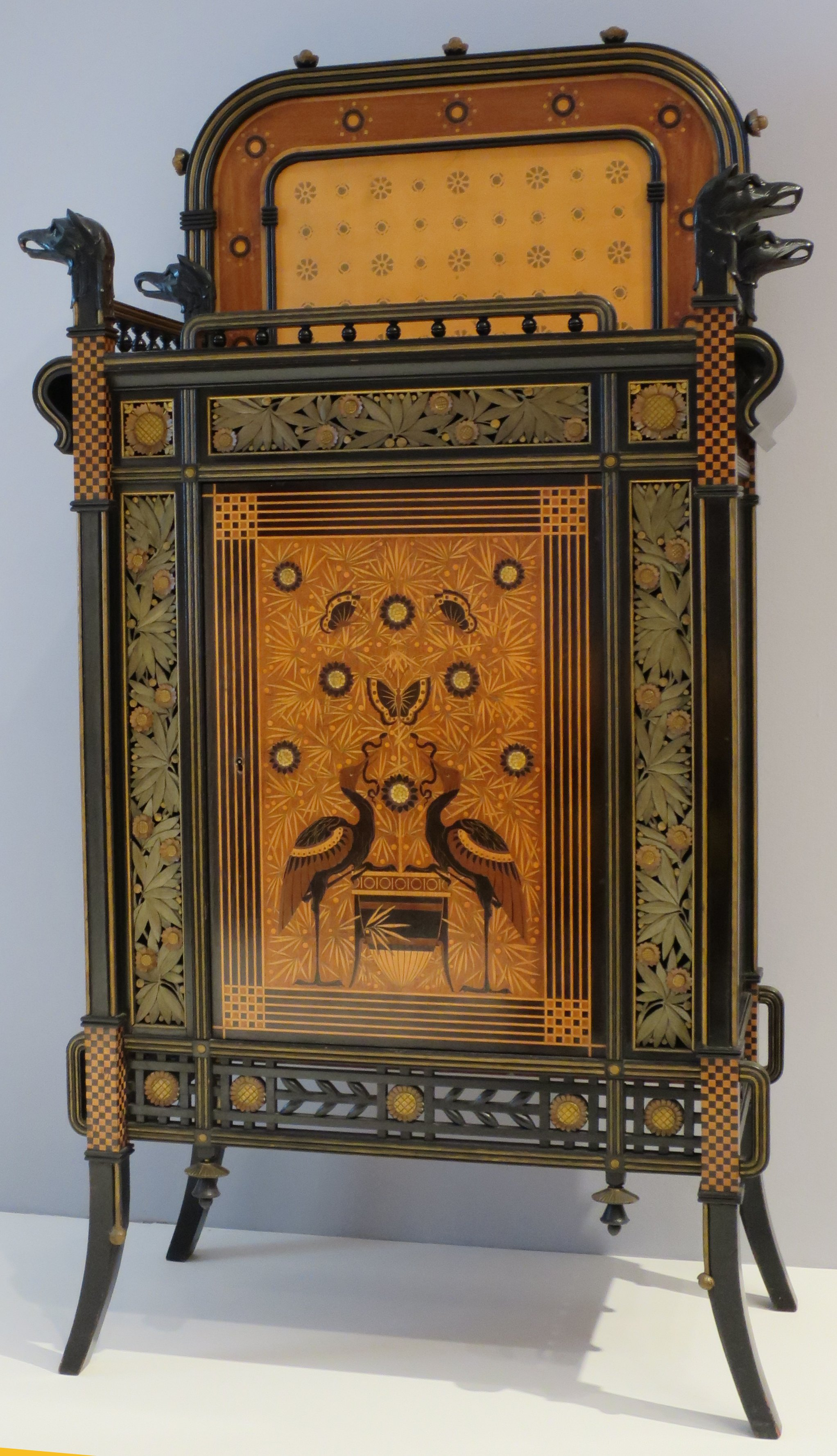 Cabinet, ca. 1875 Ebonized cherry with marquetry of various woods Designed by Gustave Herter (American, born Germany, 1830–1898) and Christian Herter, (American, born Germany, 1835–1883) Made by Herter Brothers (New York, New York, 1864–1907) High Museum of Art, Atlanta Virginia Carroll Crawford Collection, 1981.1000.51